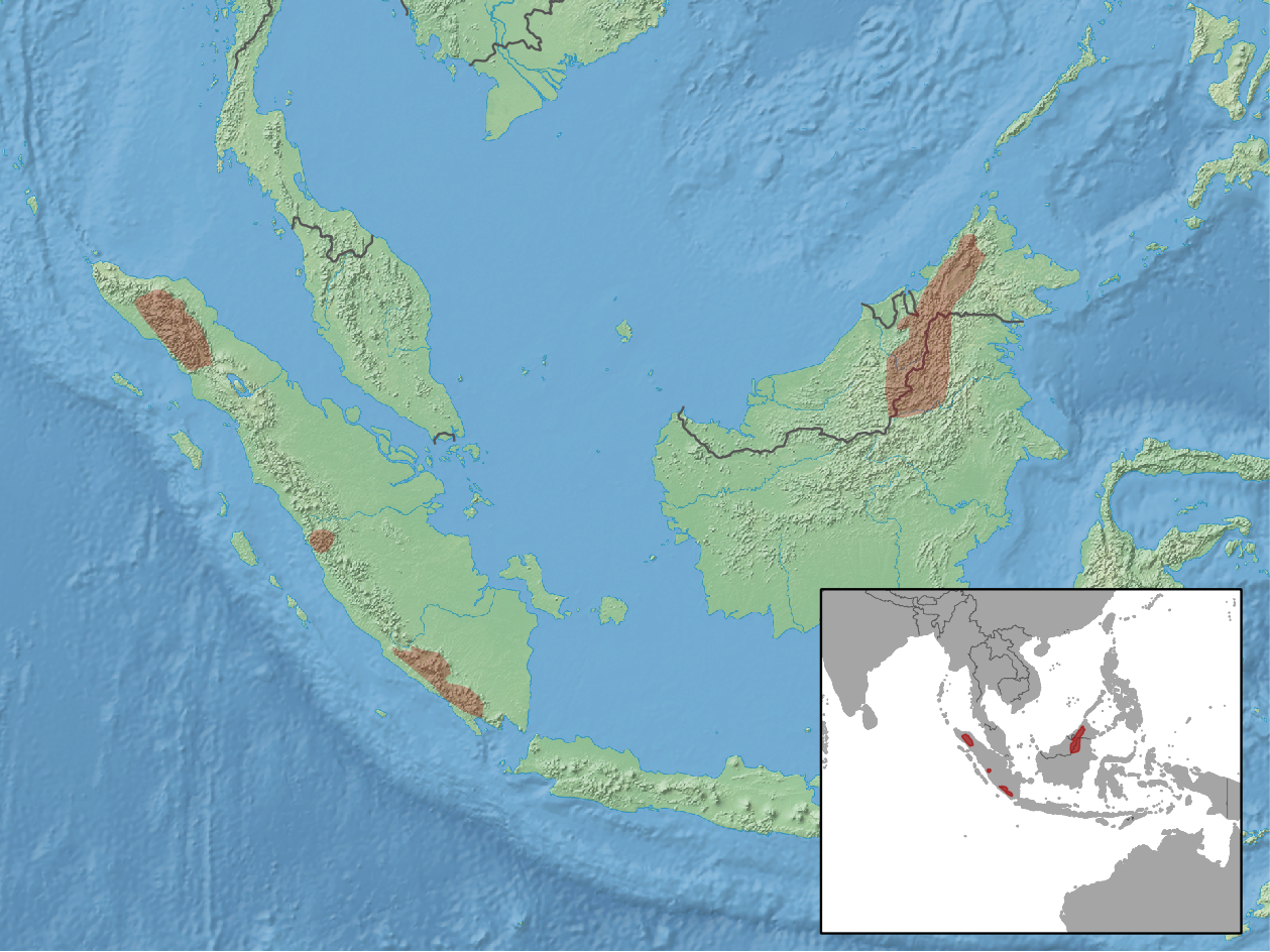 geographic distribution of Sundamys infraluteus